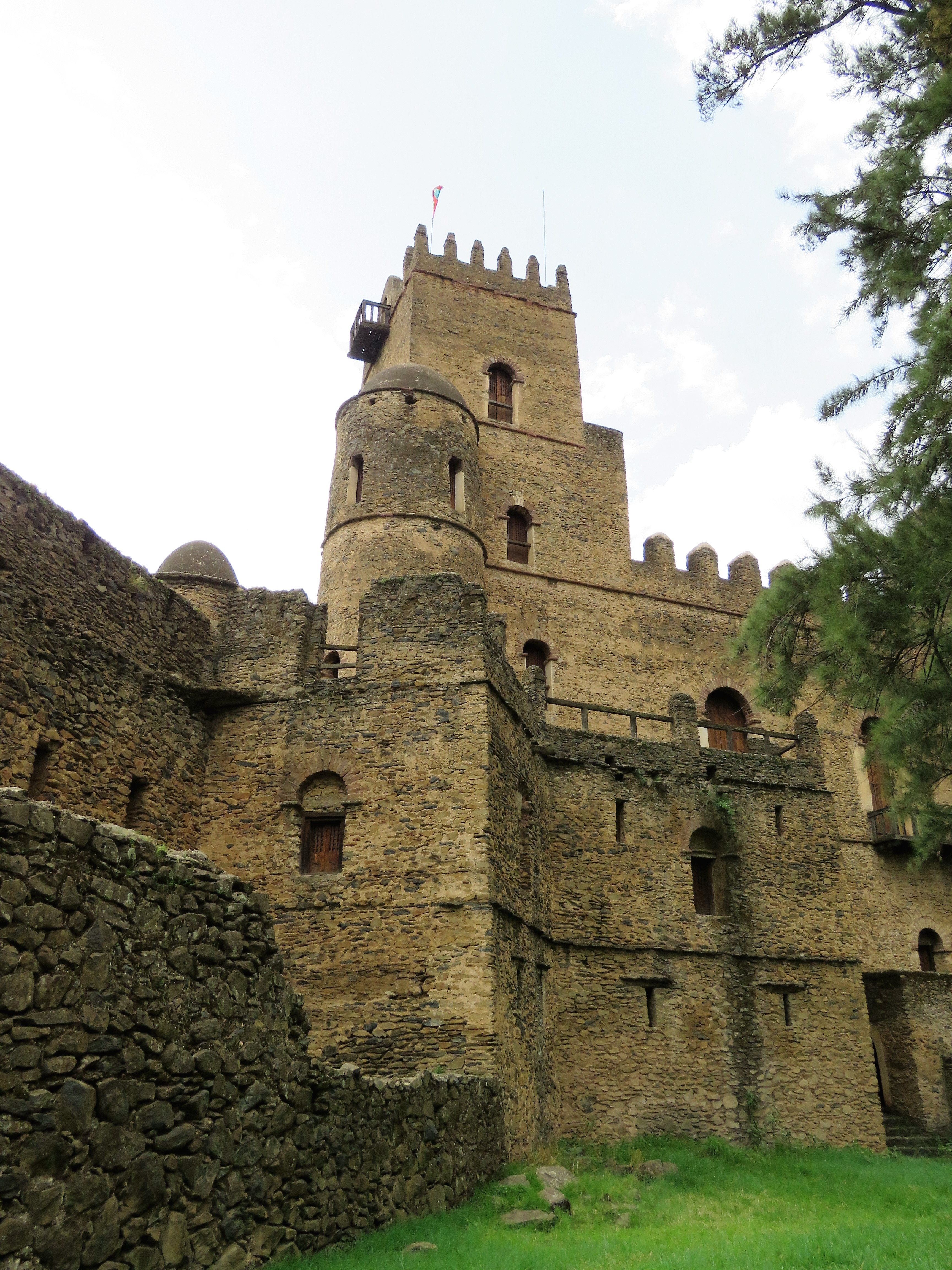 Gondar Castle 37